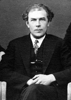 1930s image of Estonia composer Heino Eller (1887-1970)